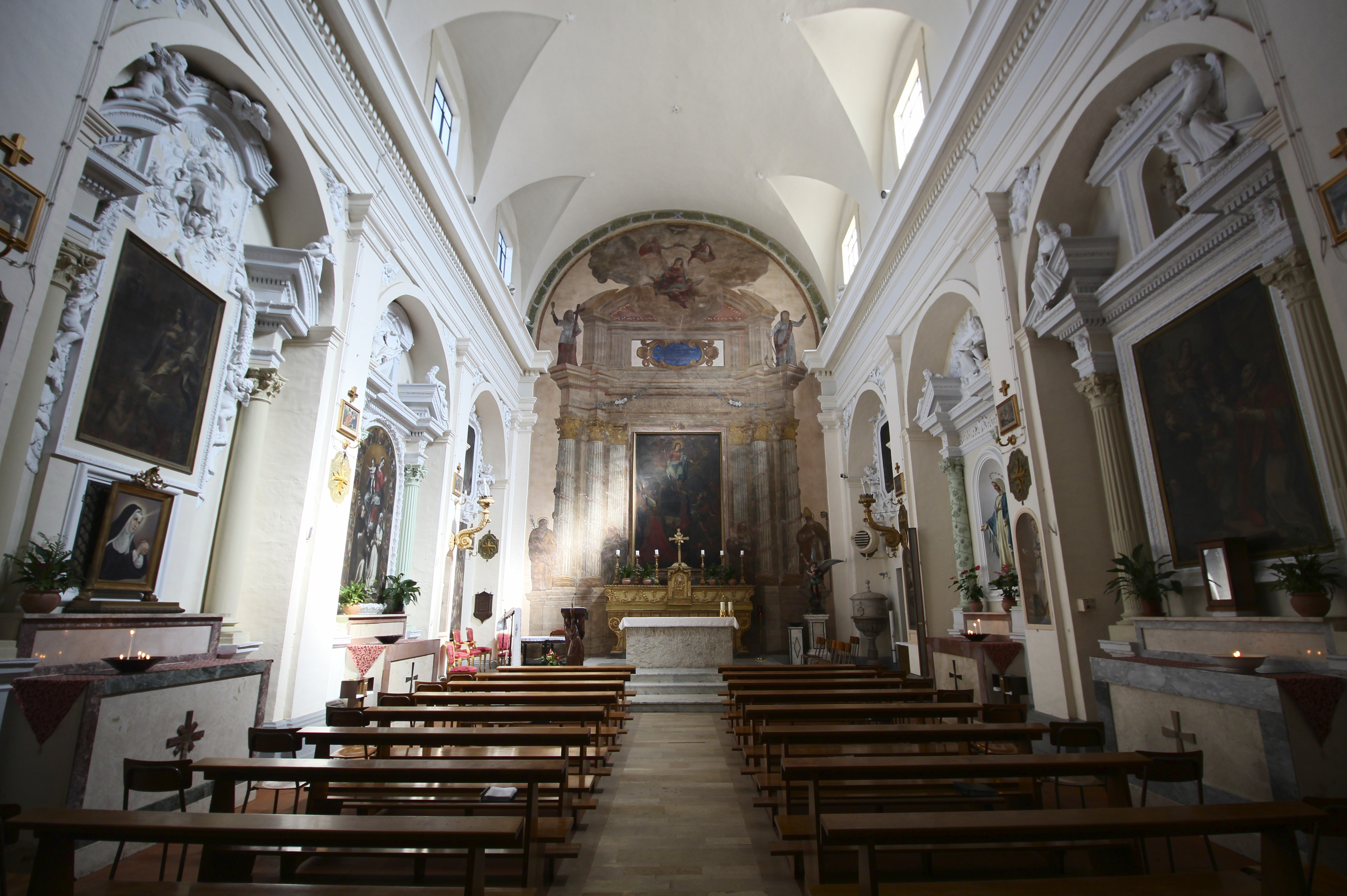 church San Sabino, Fratta Todina, Province of Perugia, Umbria, Italy